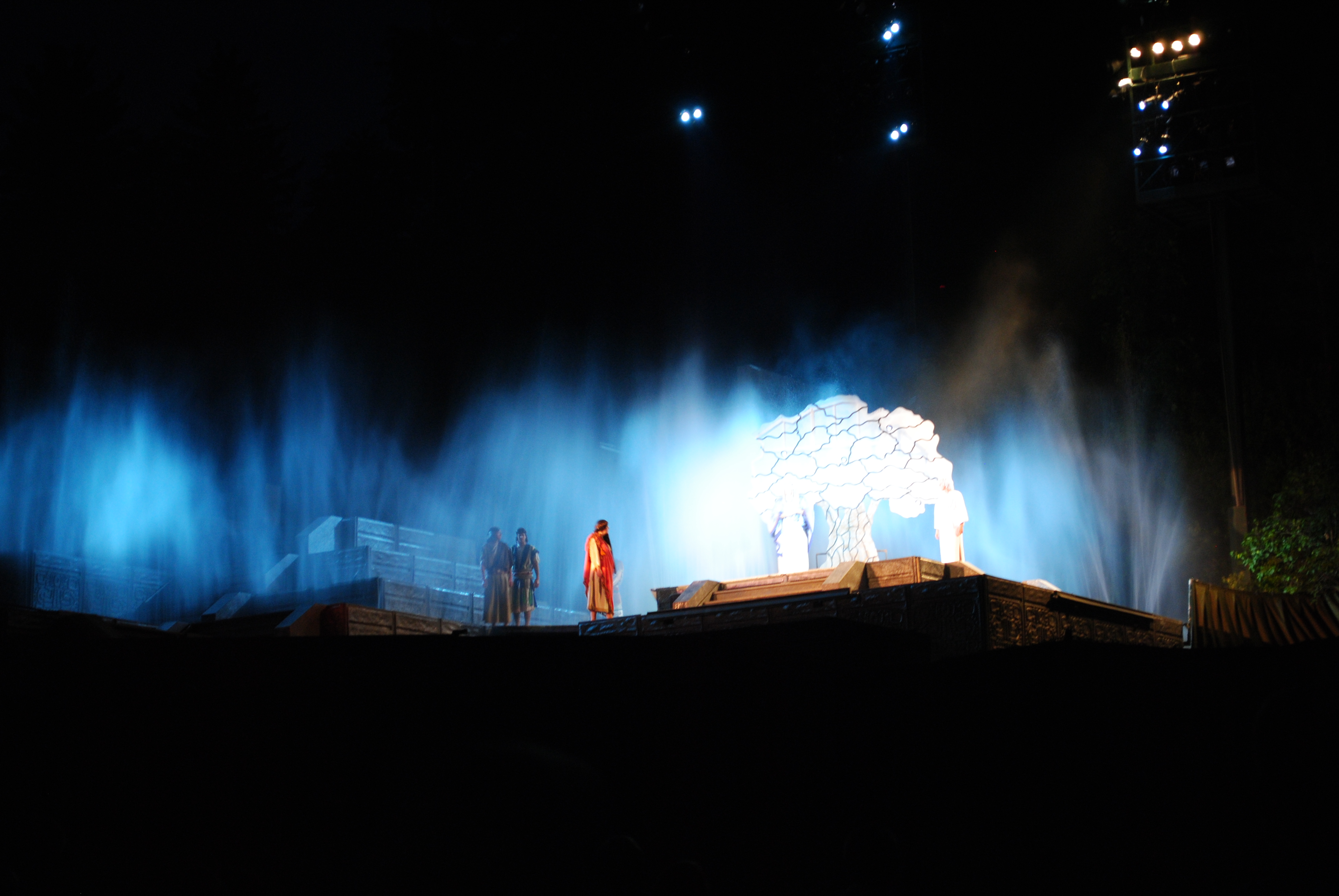 Nephi's vision of Lehi's dream, as depicted in the Hill Cumorah Pageant